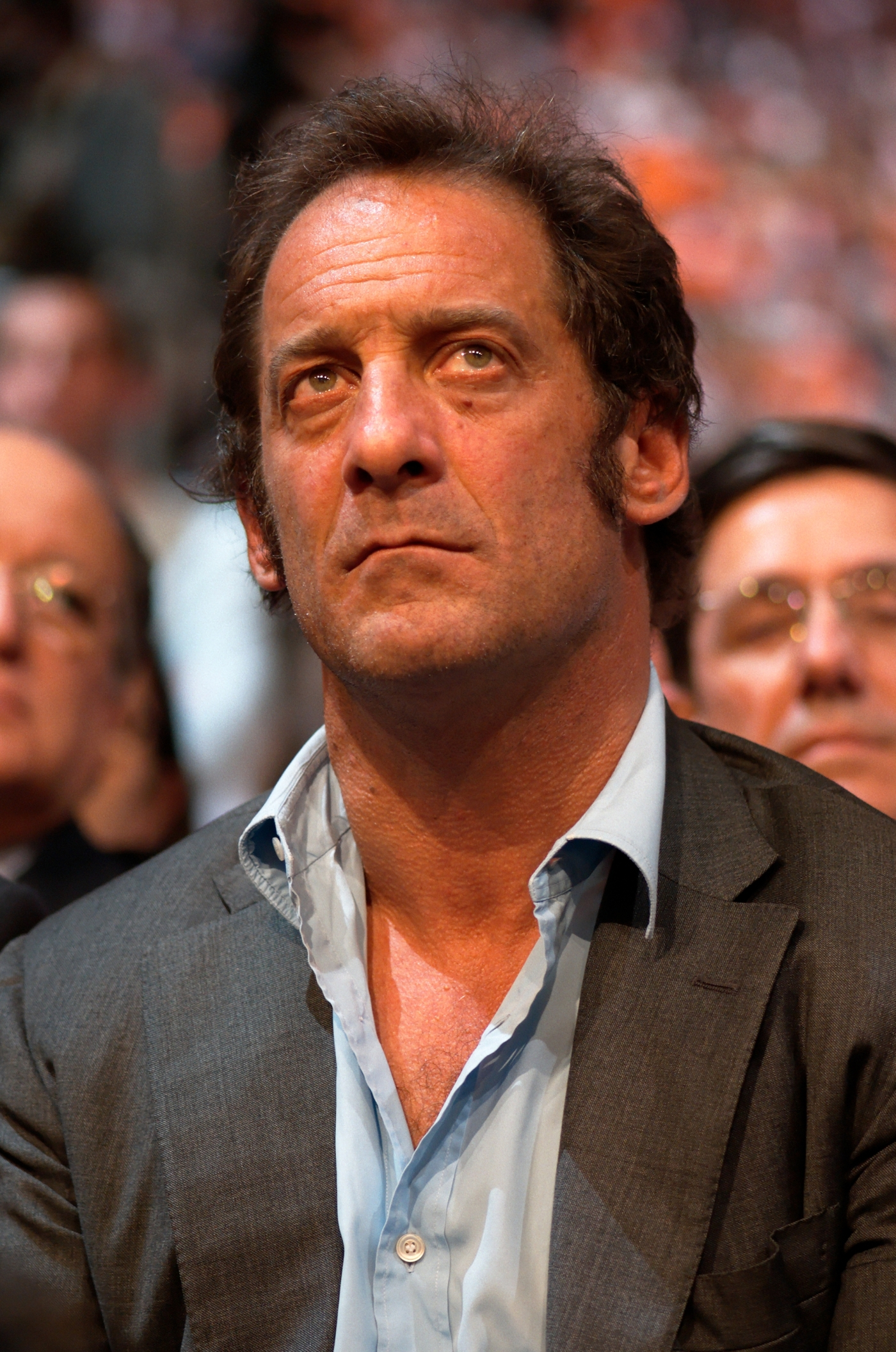 Actor Vincent Lindon at a rally for François Bayrou, centrist candidate in the 2007 French presidential election, heald on Apr. 18, 2007 at Paris Bercy.